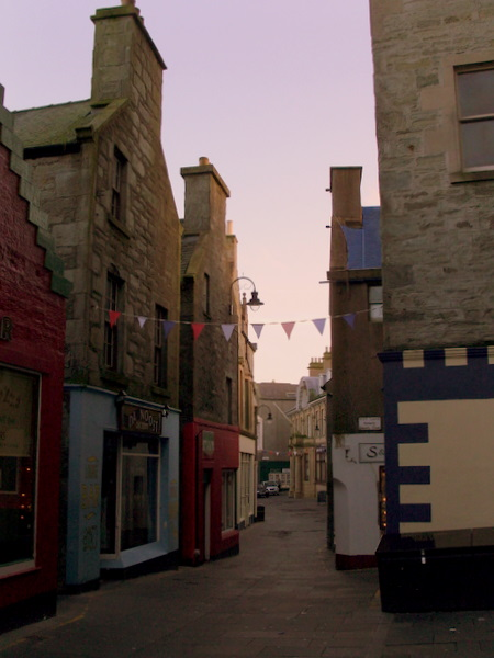 Image of Commercial Street, the main street in Lerwick, Shetland, Scotland.